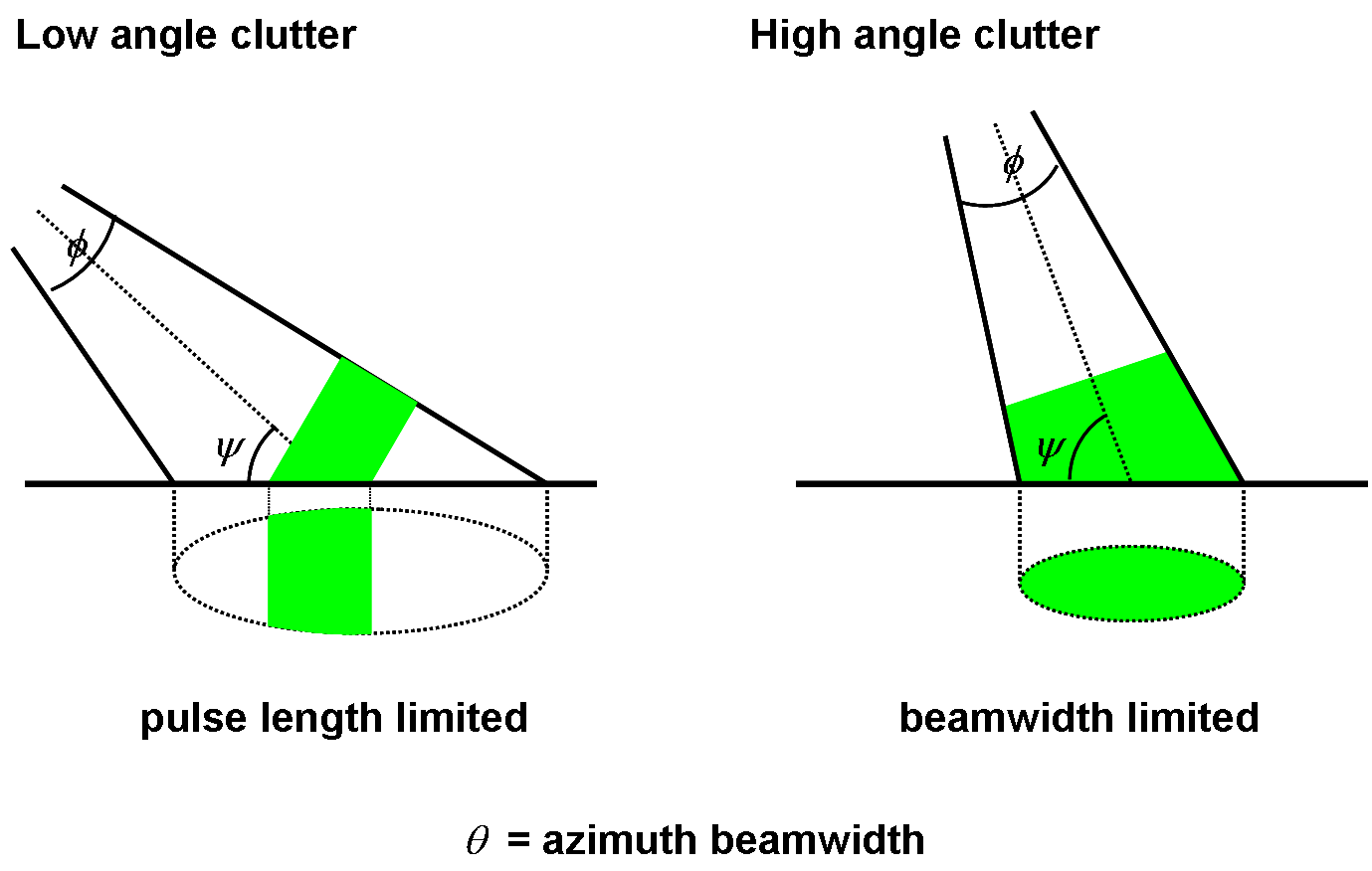 A diagram to assist in the derivation of Surface Clutter in Radar